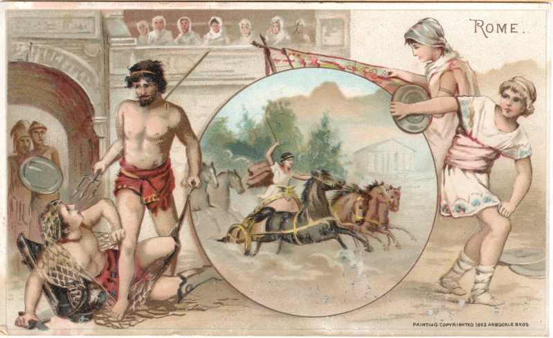 Persistent URL: Subject (TGM): Men; Gladiators; Chariots; Chariot racing; Discus throwing; Coffee industry; Message: Keywords